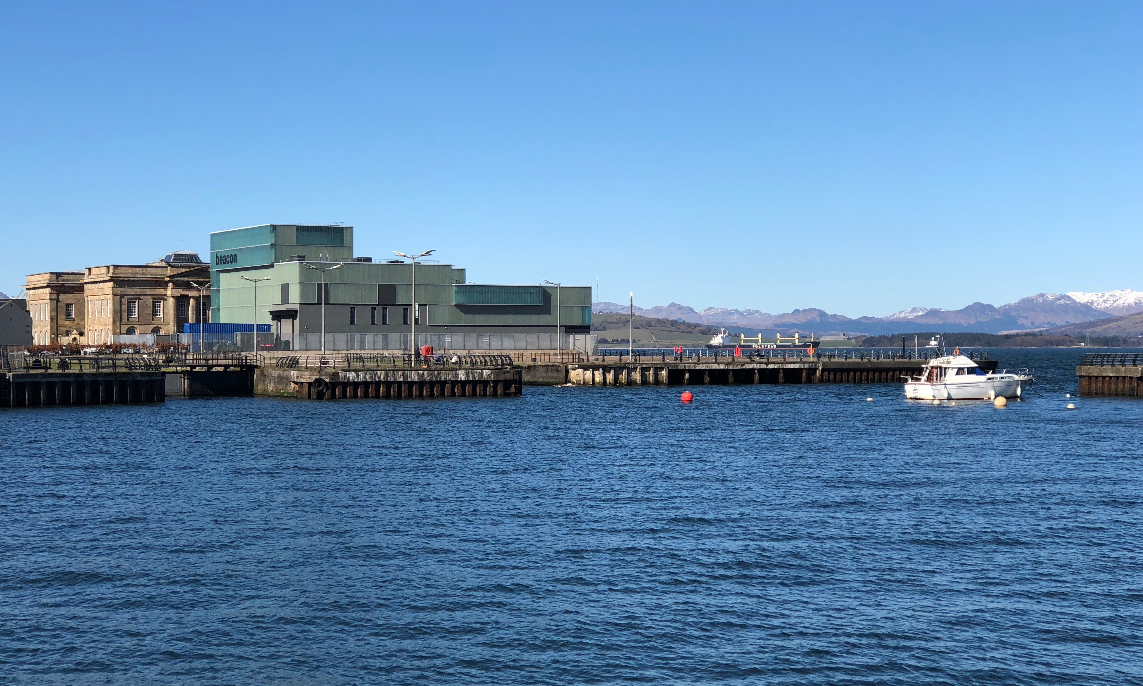 View of the Custom House and Beacon Arts Centre, seen across East India Harbour, Greenock in Scotland – Argyll hills visible across the River Clyde. The seawall in front of the buildings features two dry dock gates, from the graving docks formerly used by James Lamont & Co ship repairers, which were infilled before work began on the Beacon Arts Centre.